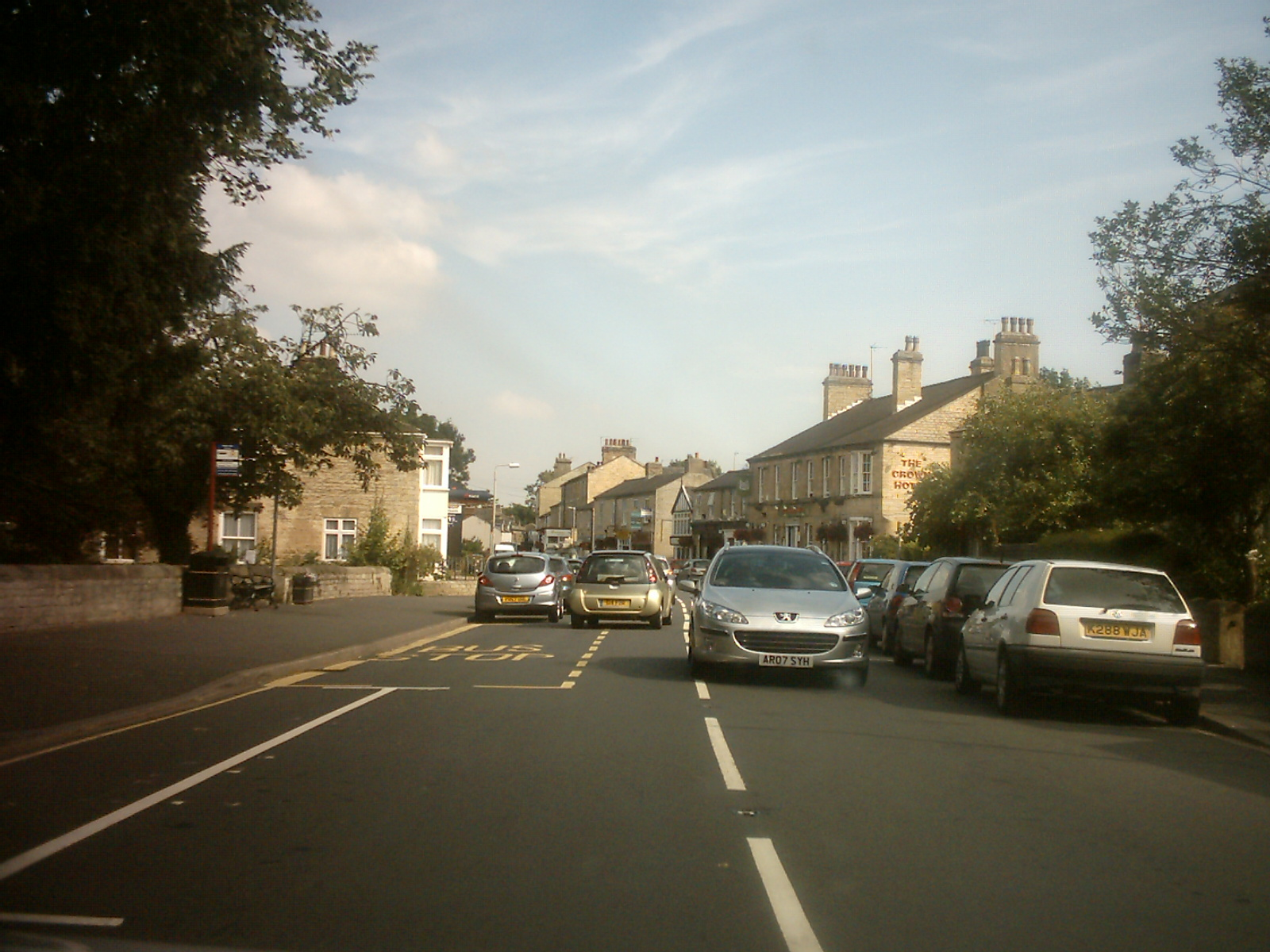 Main Street, Boston Spa